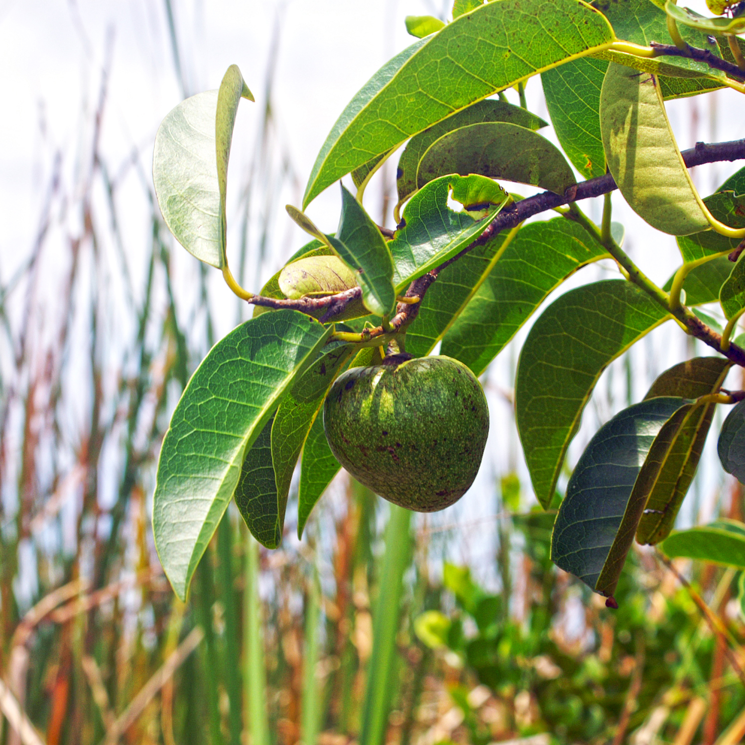 Annona glabra - green fruit (closeup)